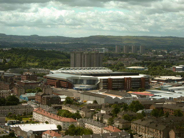 Glasgow Rangers' stadium at Ibrox taken from the Glasgow Science Centre Tower.